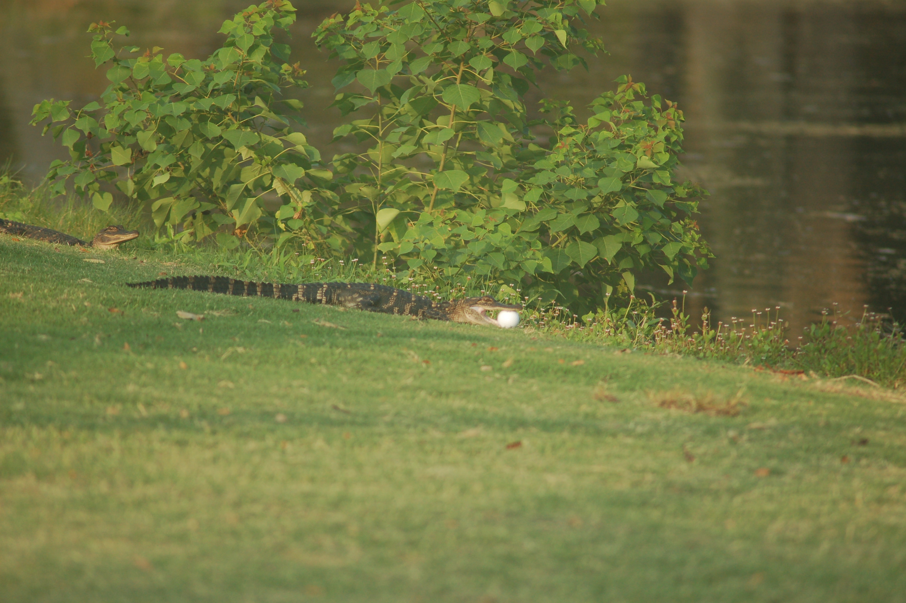 Golf ball in a baby alligator's mouth. Kiawah Island Golf Resort, South Carolina, USA